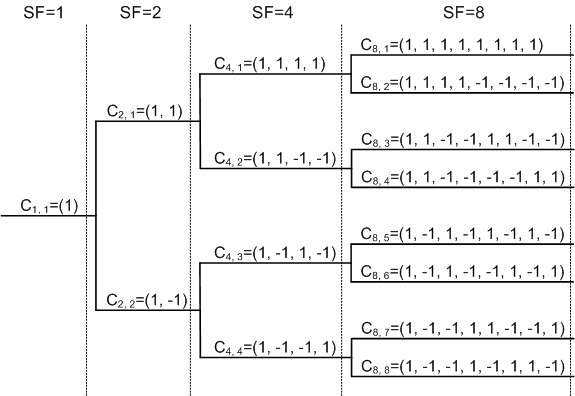 The illustration shows a tree of orthogonal sequences used for spread spectrum in the UMTS network